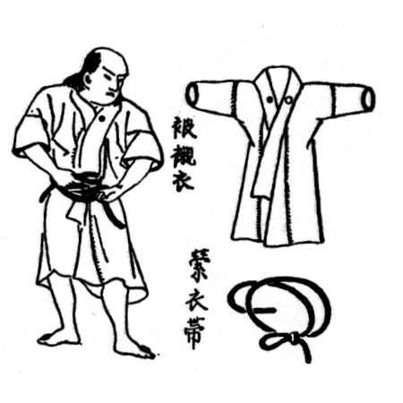 An Edo period Japanese wood block print of a shitagi, a type of shirt worn under samurai armour.